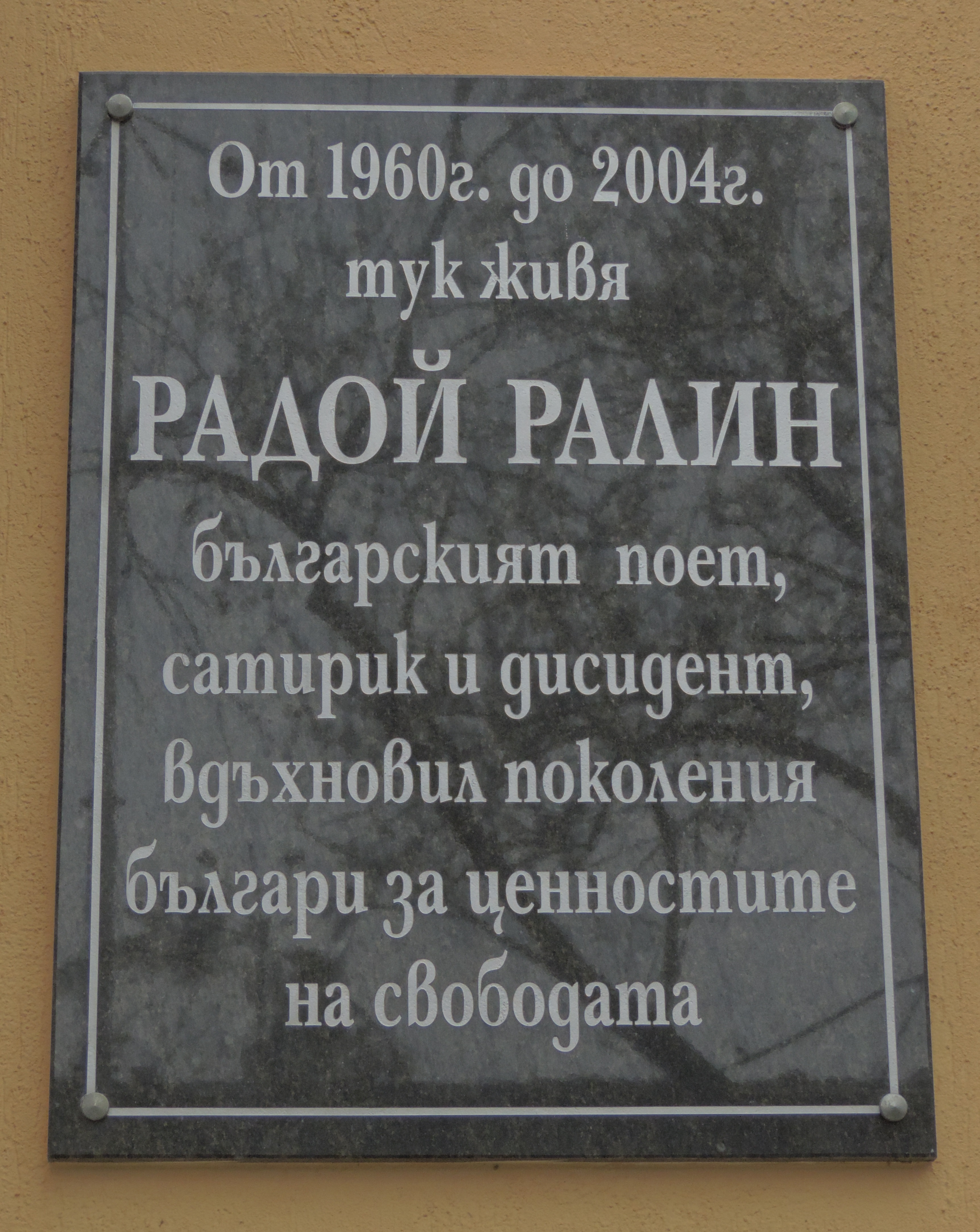 The memorial plaque on the building where from 1960 until 2004, the Bulgarian satirist Radoy Ralin used to live (Block 4, "Tsarigradsko shose" Blvd., Sofia).